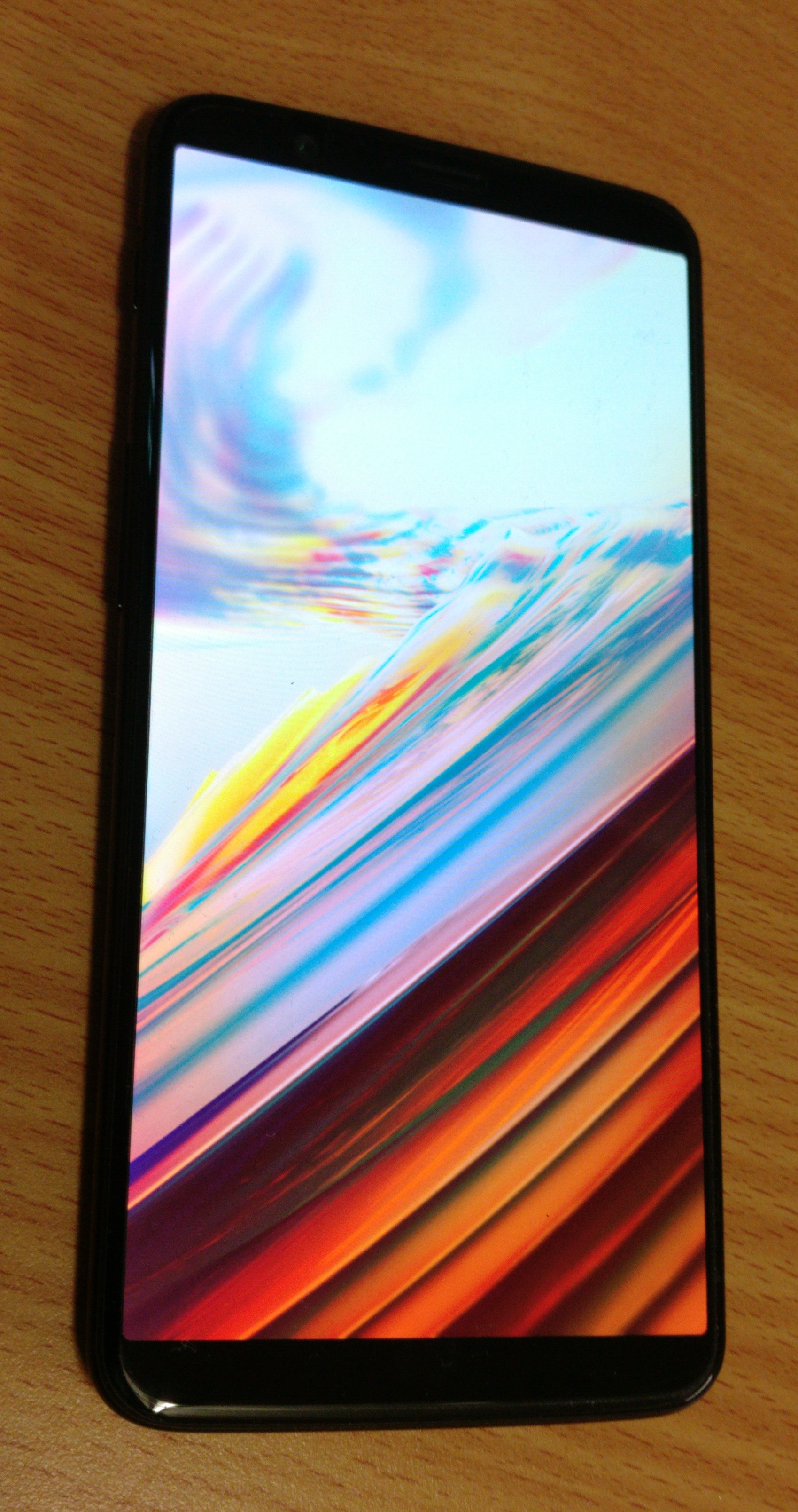 OnePlus 5T OLED screen - 18:9 aspect ratio, 1080 x 2160 resolution, 401 ppi pixel density.